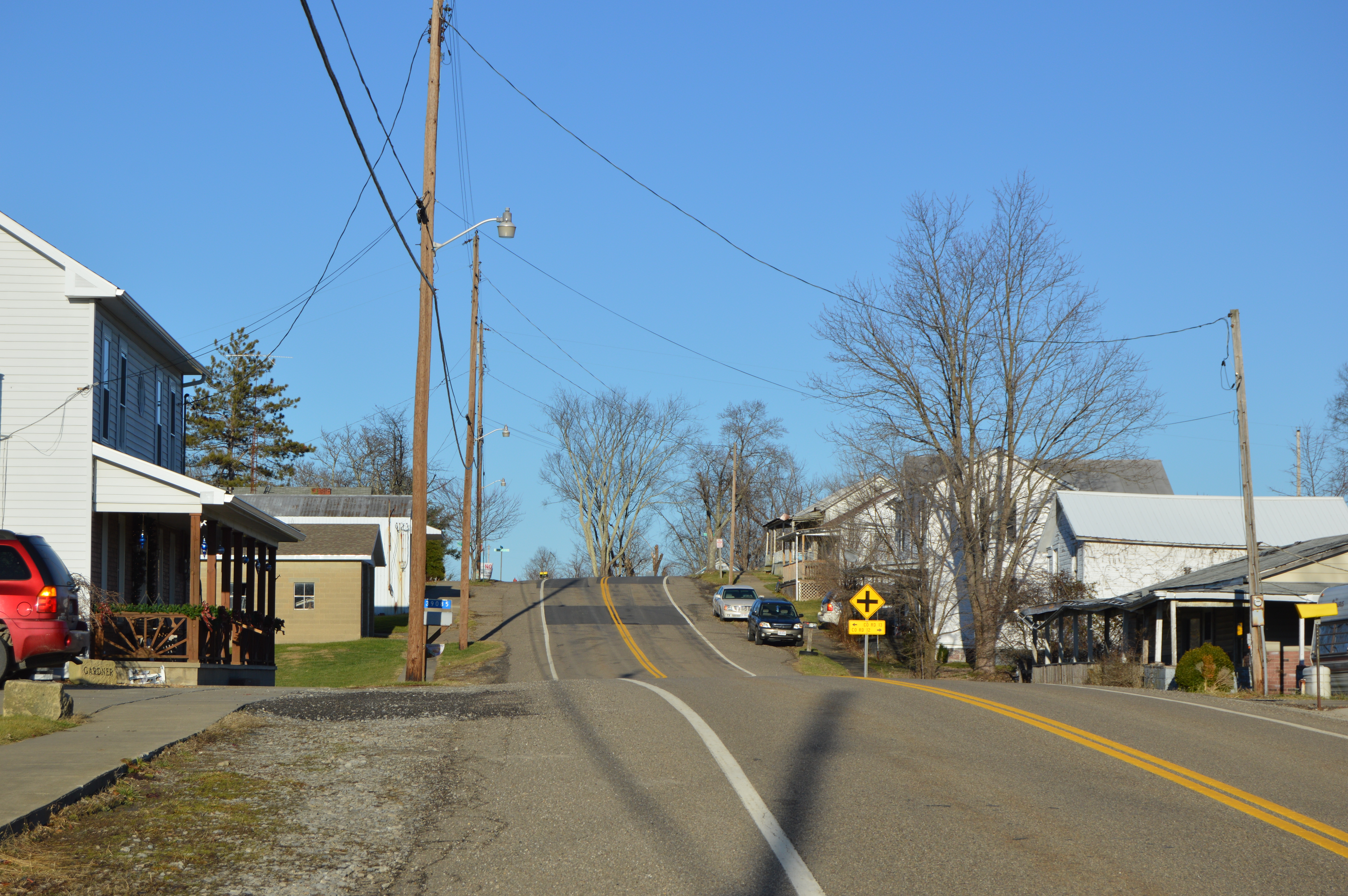 Looking northward along State Route 26 in Graysville, Ohio, United States. With fewer than one hundred residents, the village functionally has no other streets.